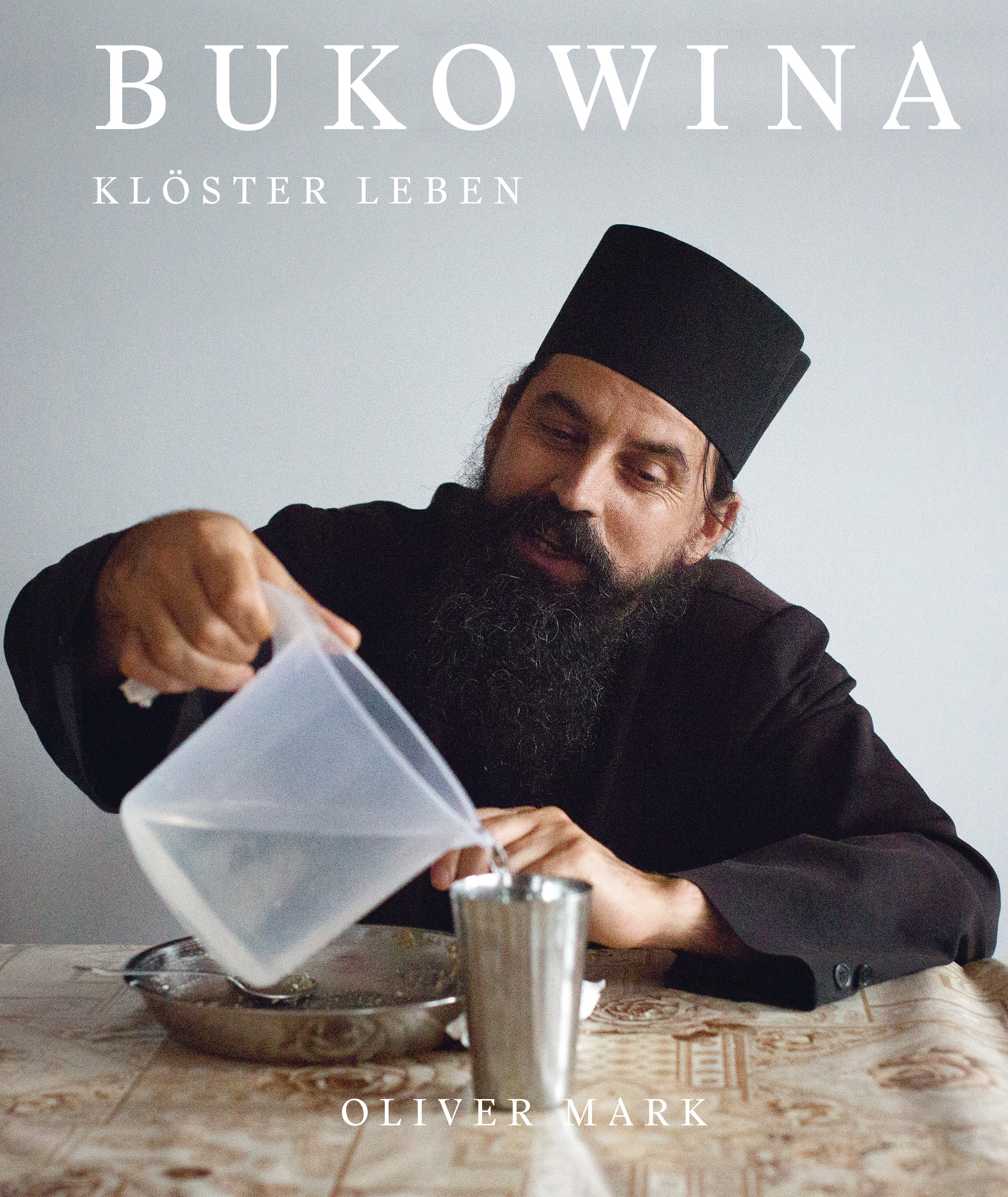 Bucovina Monastery Life. Editura Karl A. Romstorfer, Suceava 2018, ISBN 978-606-8698-29-8.